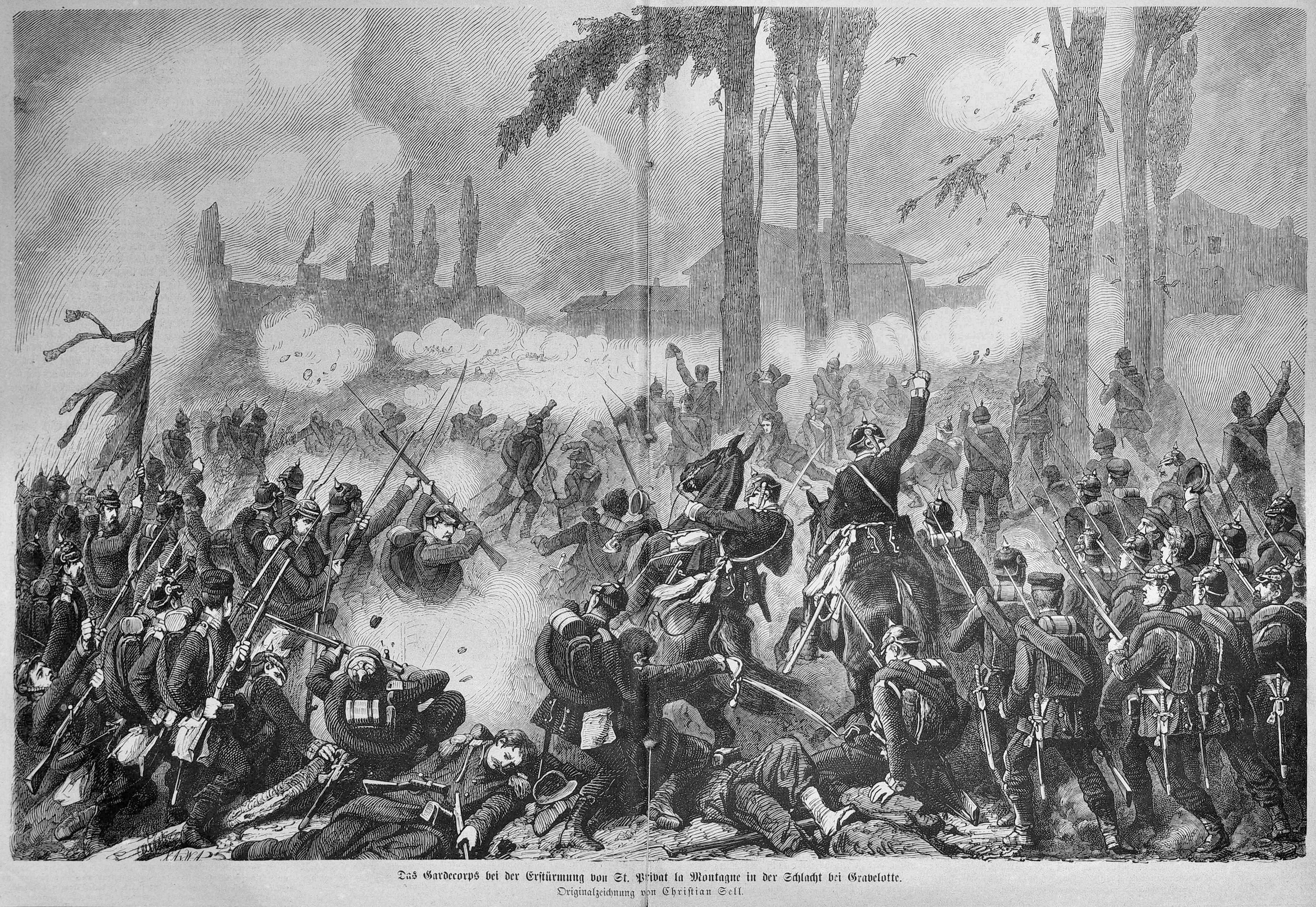 caption: "Das Gardecops bei der Erstürmung von St. Privat la Montagne in der Schlacht bei Gravelotte. Originalzeichnung von Christian Sell."